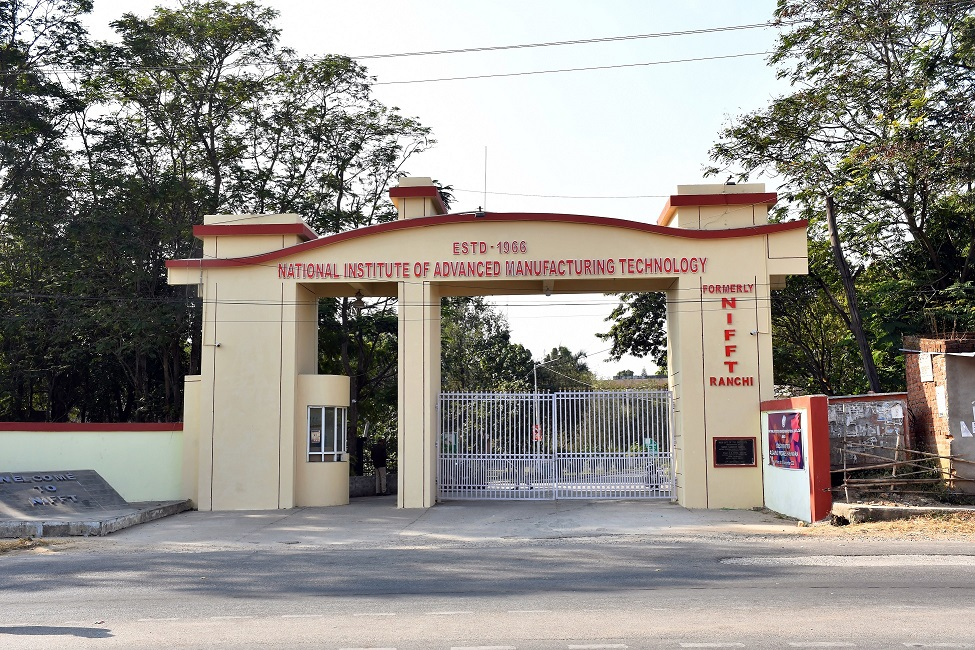 upgrade